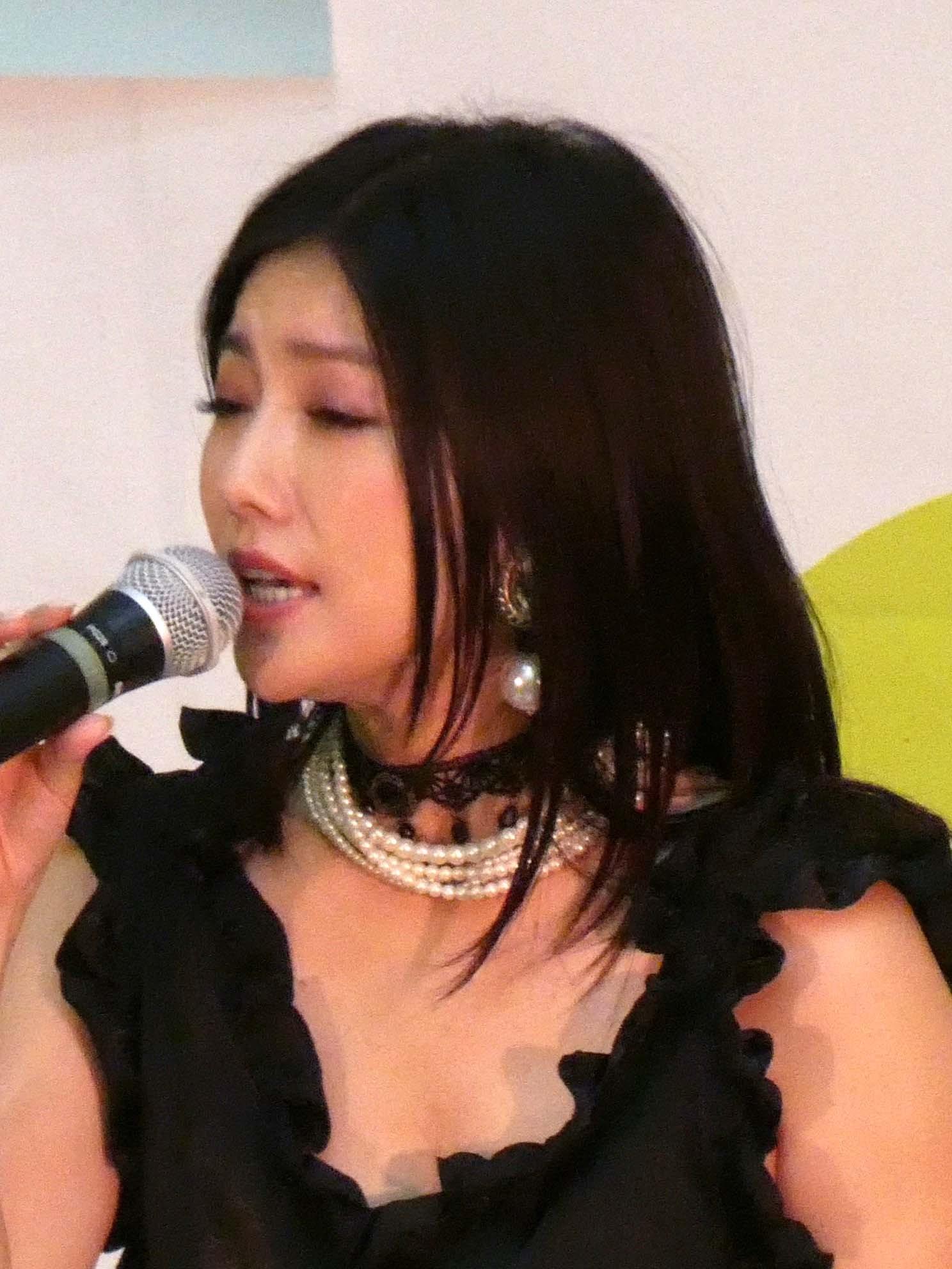 Hitomi Shimatani (Japanese female singer)